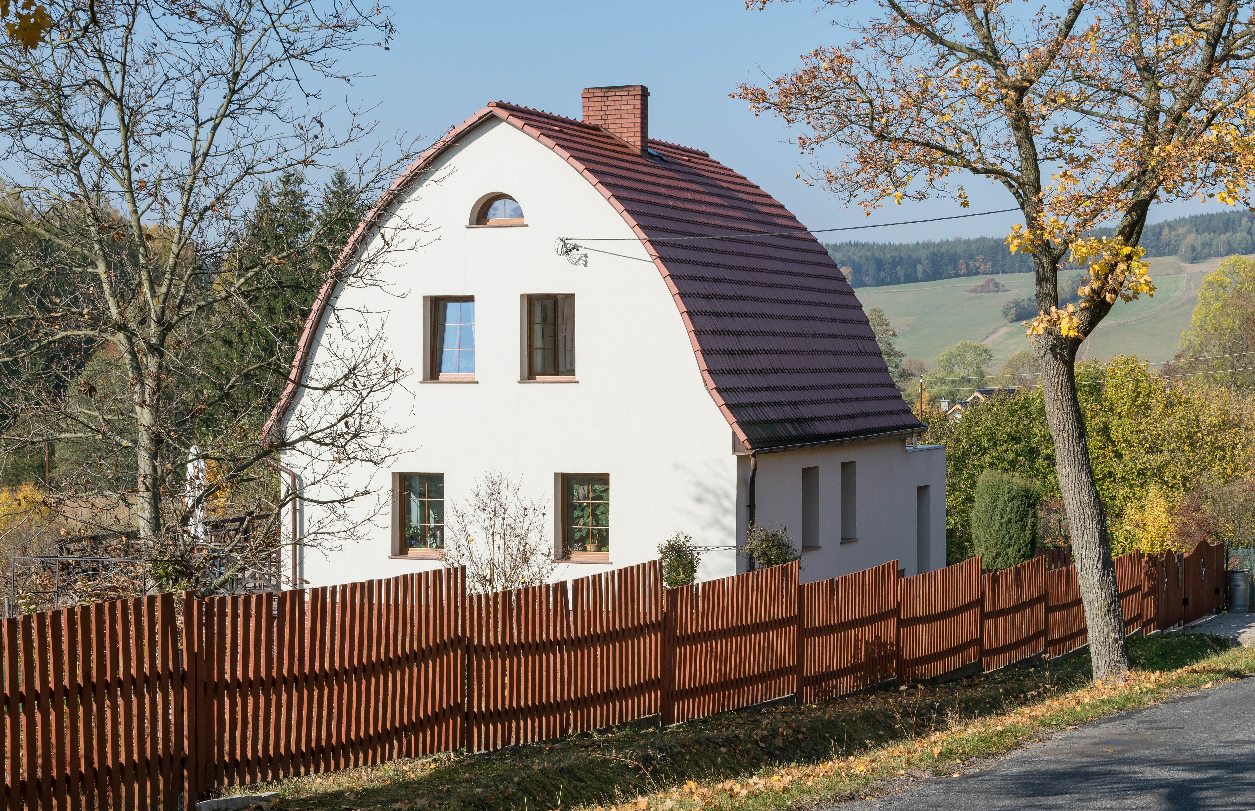 4 Sitów Street in Jugów